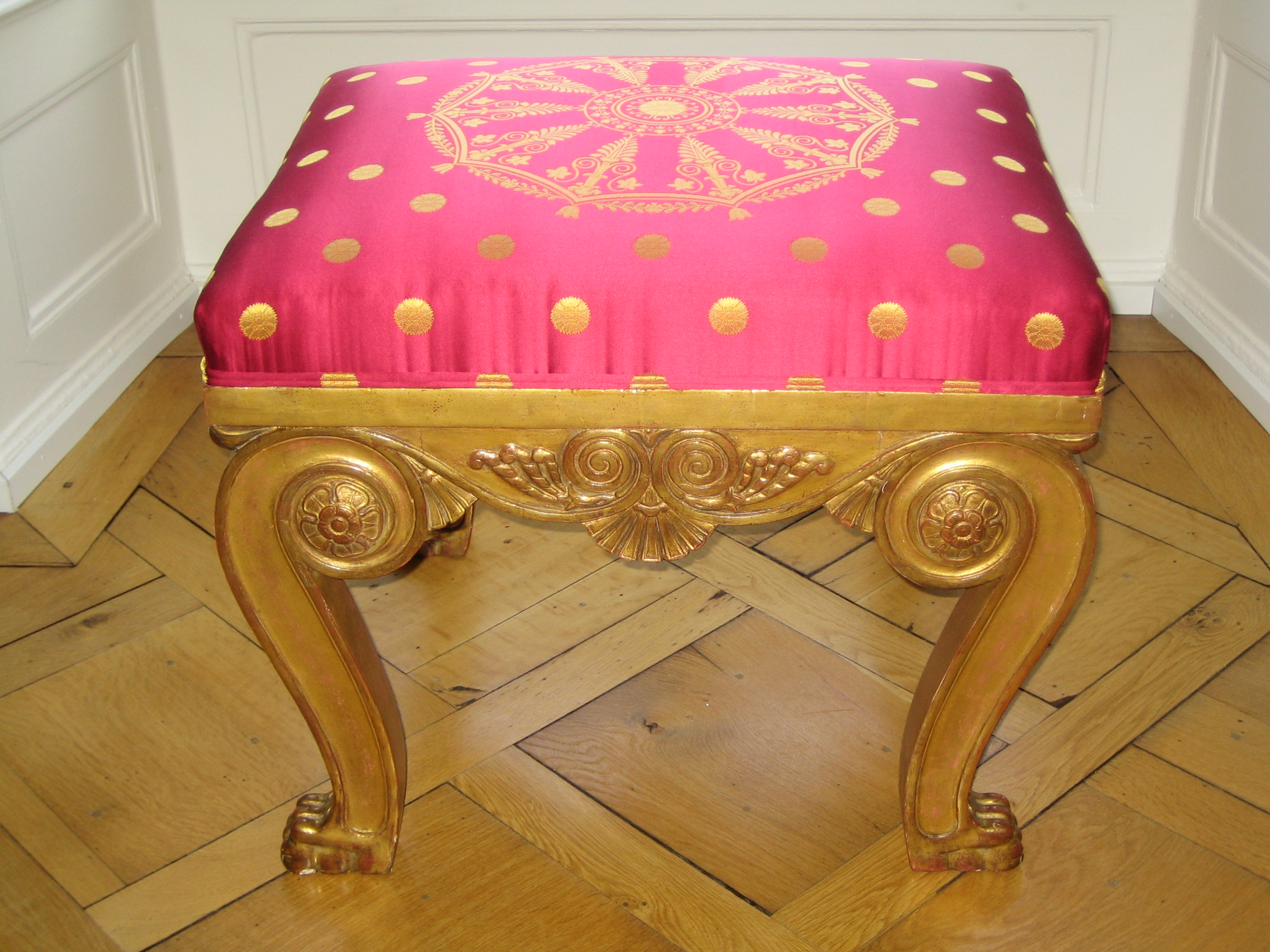 Jacob Frères Rue Meslée, Paris (François-Honoré-Georges Jacob-Desmalter and his brother Georges Jacob Fils): Stool, early 19th century (about 1810), gilded wood, marking stamp of the Palais des Tuileries on the underside. Provenance: Palais des Tuileries, Paris, France. A stool of the same model was sold on 23rd June 2005 at Christie's in Paris (Sale 5310/Lot 401) for EUR 18.000.-- (in need of restauration).